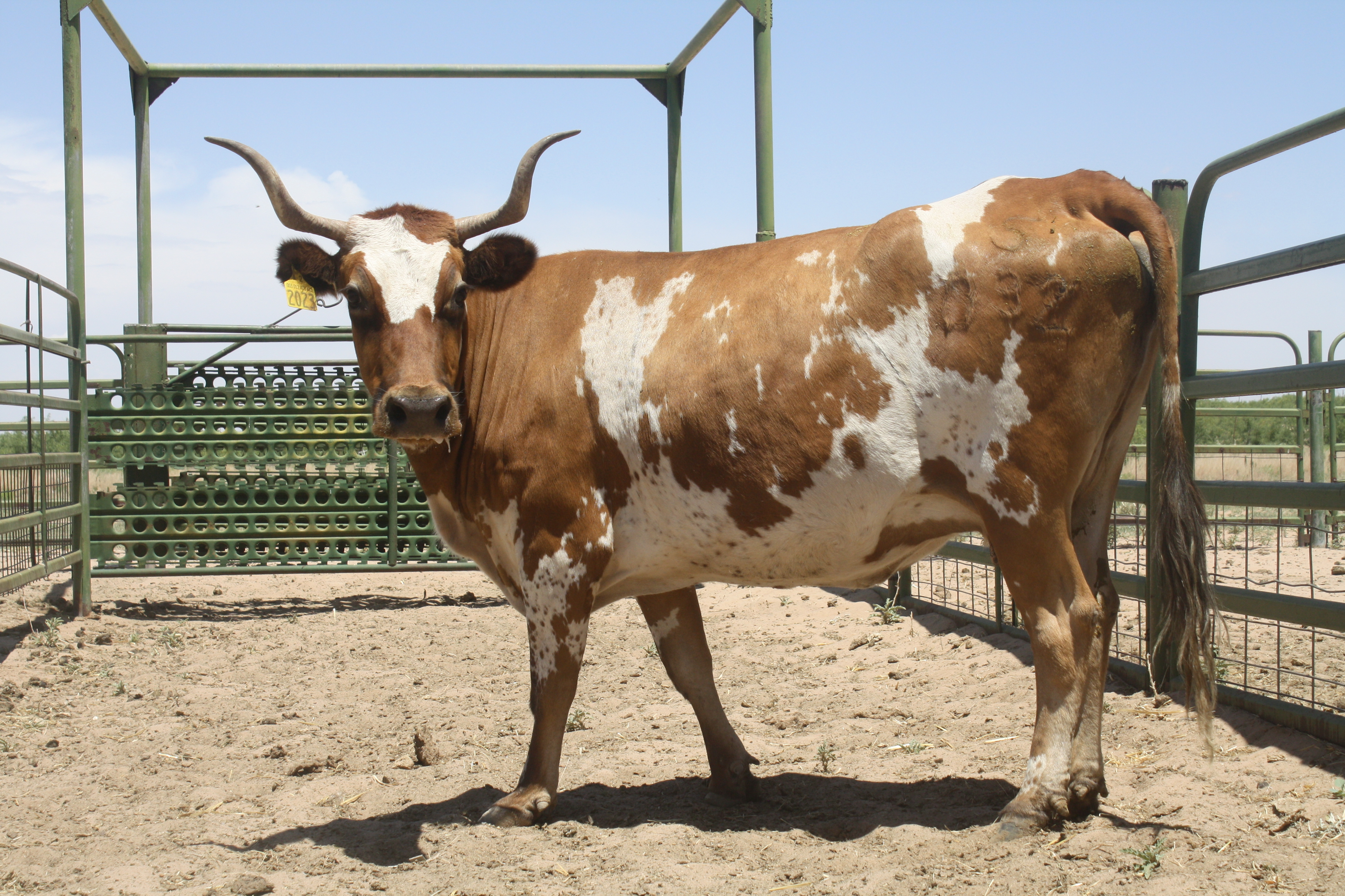 Raramuri Criollo cow at Jornada Experimental Range, 2019.